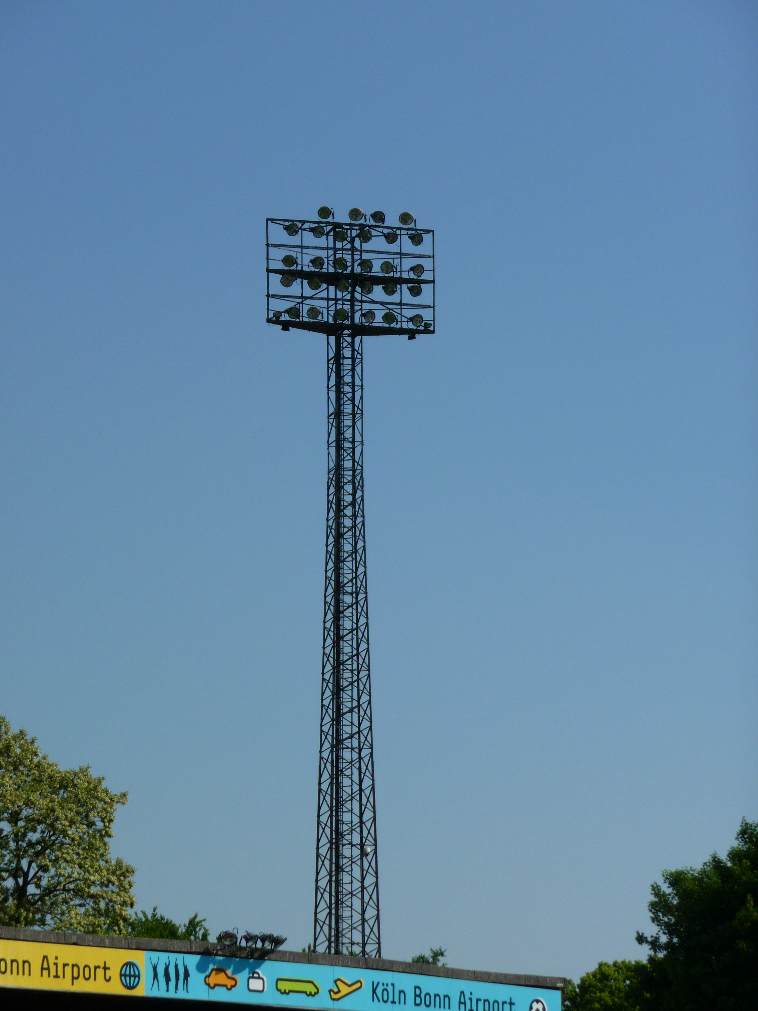 Tivoli, Aachen